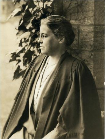 Professor Georgiana Goddard King at Bryn Mawr College (ca 1910) from the «Photographs of the “Dust of the Highway”: Georgiana Goddard King’s Way of Saint James» (